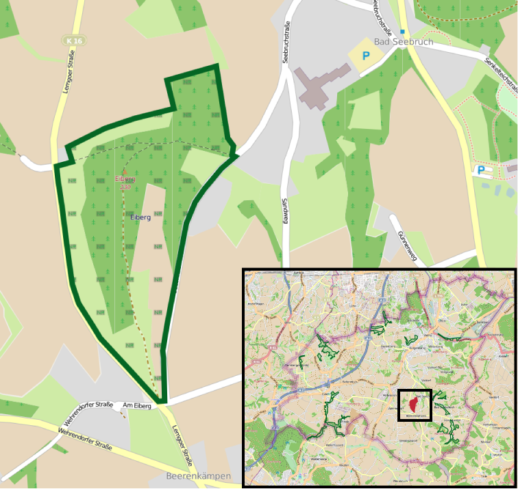 Vlotho - Nature reserve Eiberg^- overview map Number and borders of nature reserves are subject to frequent change. In order to facilitate reproduction of this map from openstreetmap, the following data is stored here: export boundaries: north: 52.137; west: 8.845; east: 8.864; south: 52.126; mapnik svg, scale 1:10.000 nature reserve boundary stroke weight 10.0; nature reserve stroke color: R 5, G 102, B 36; municipality border stroke weight: as found